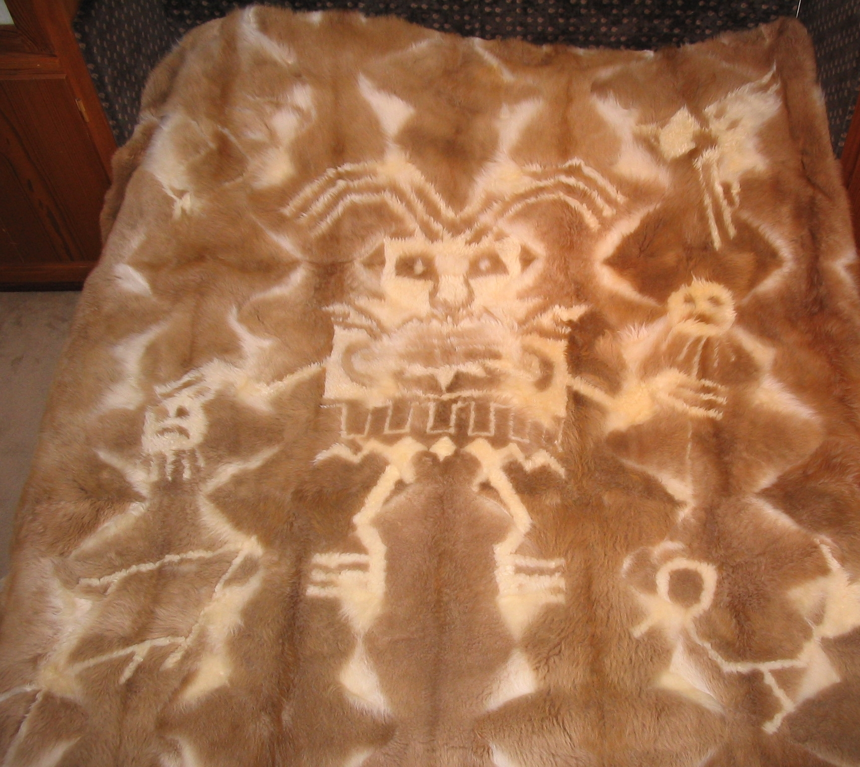 Guanaco fur skin blanket, German work (made before 1977)